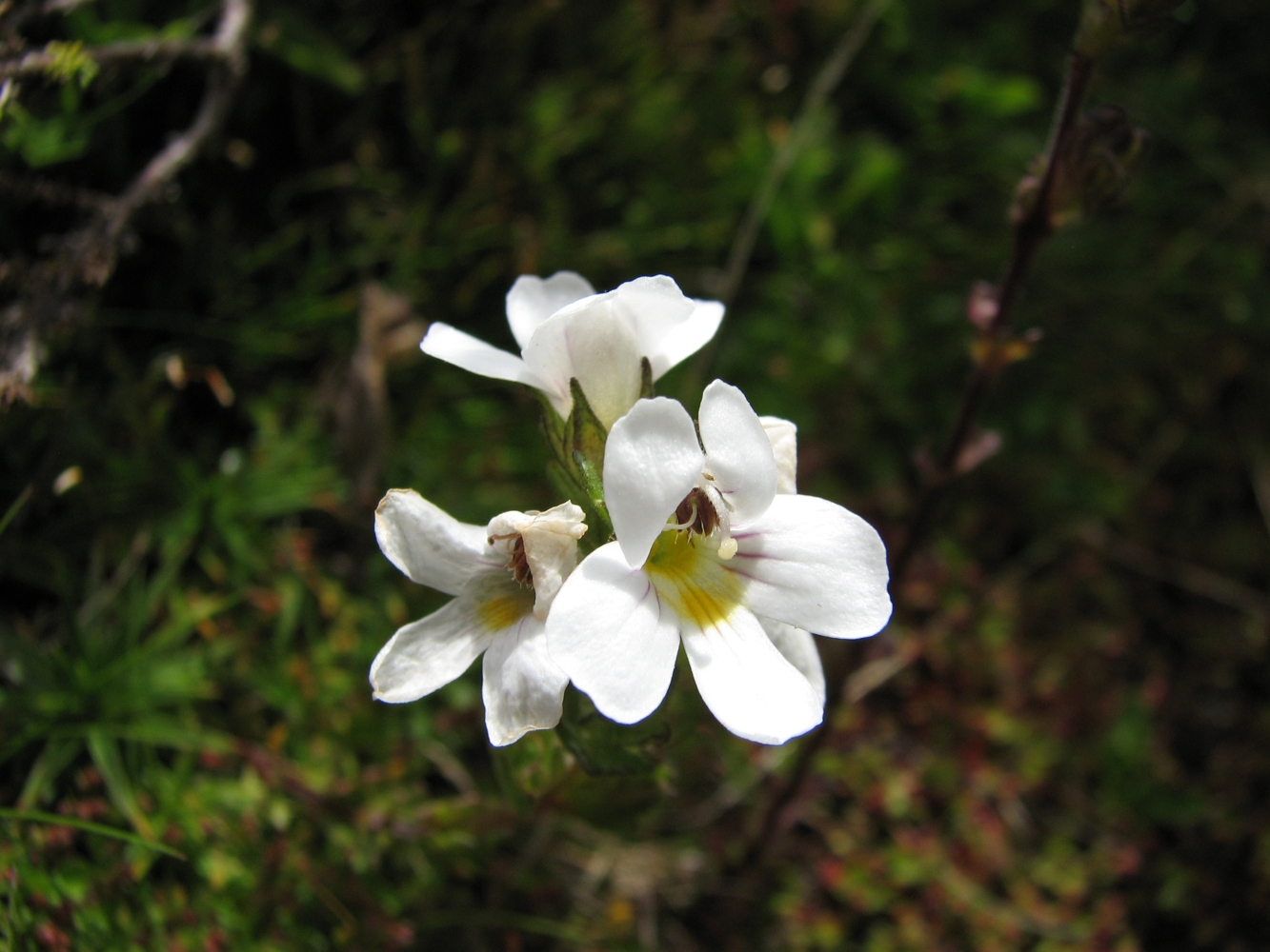 Euphrasia gibbsiae subsp. subglabrifolia, Baw Baw National Park, Victoria, Australia